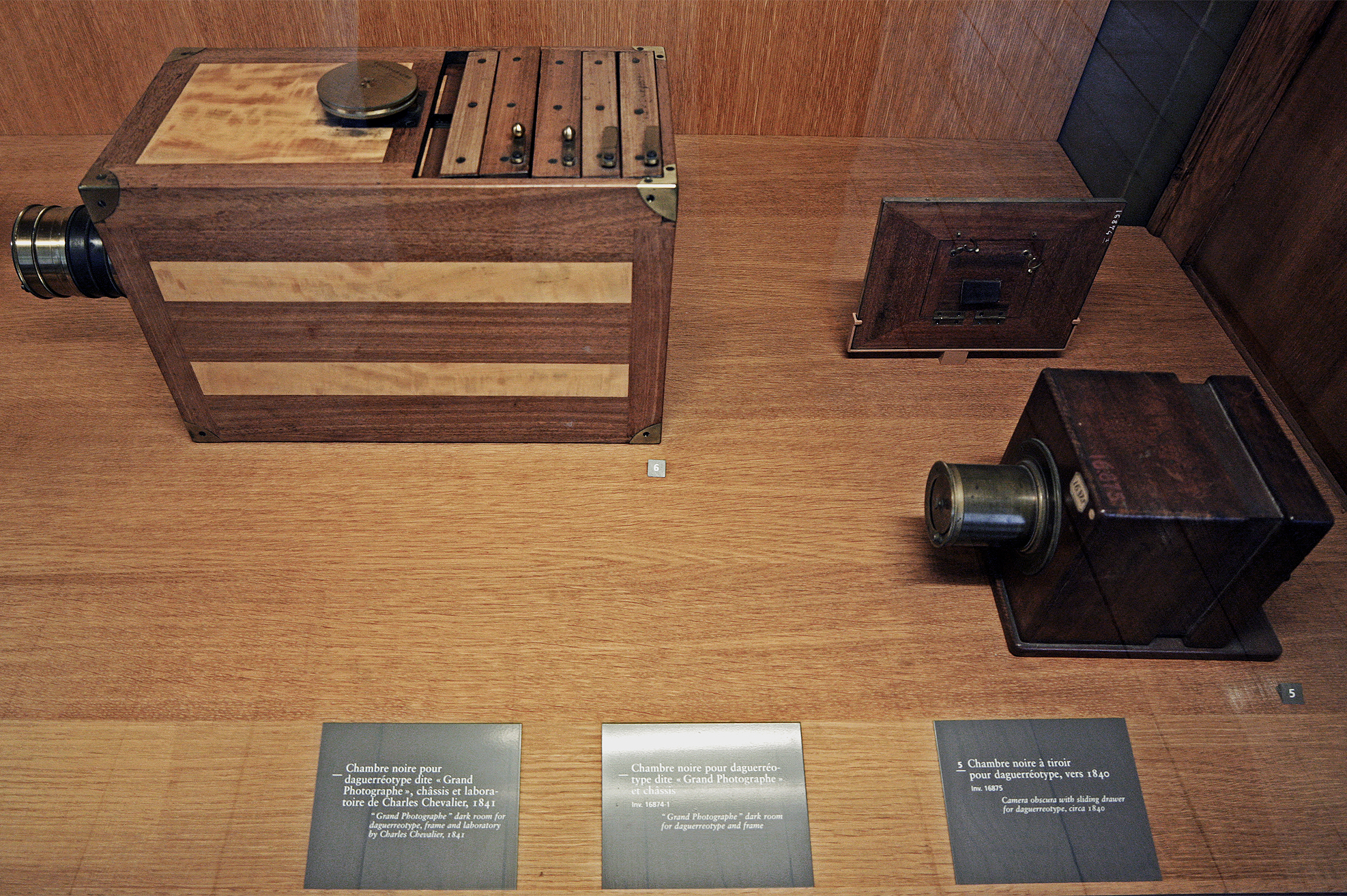 Cameras obscurae from the Paris Musee des Arts Metiers